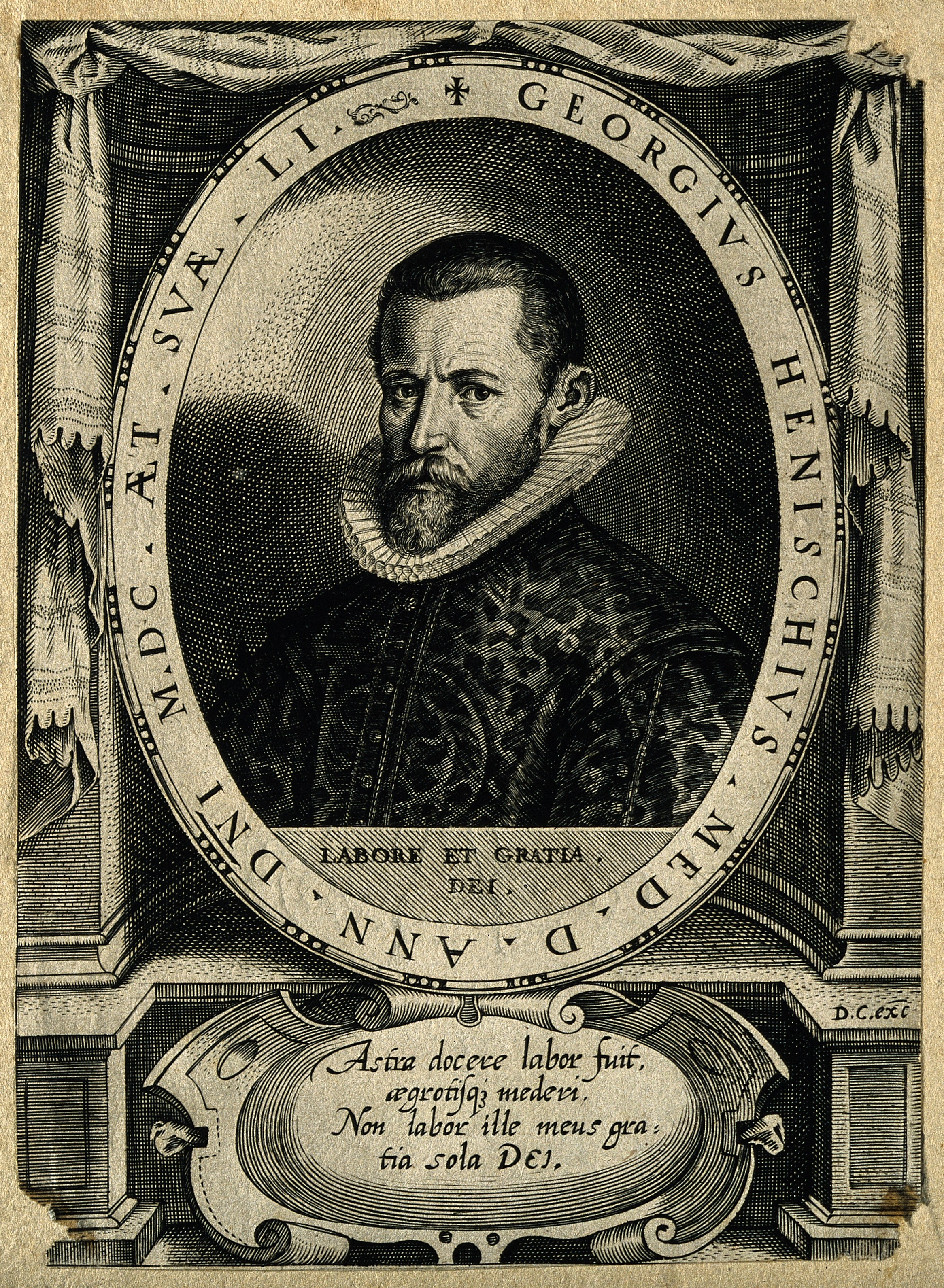 Georg Henisch. Line engraving by [D. C.]. Iconographic Collections Keywords: portrait prints; engravings; Georg Henisch